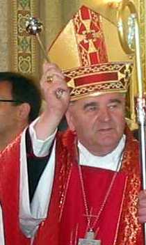 Bishop László Huzsvár blesses before mass of confirmation in Zrenjanin on 1 June 2004 - cropped picture